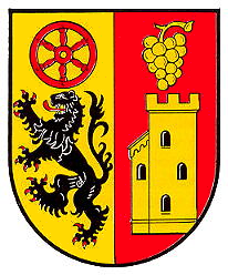 Coat of arms of Bayerfeld-Steckweiler